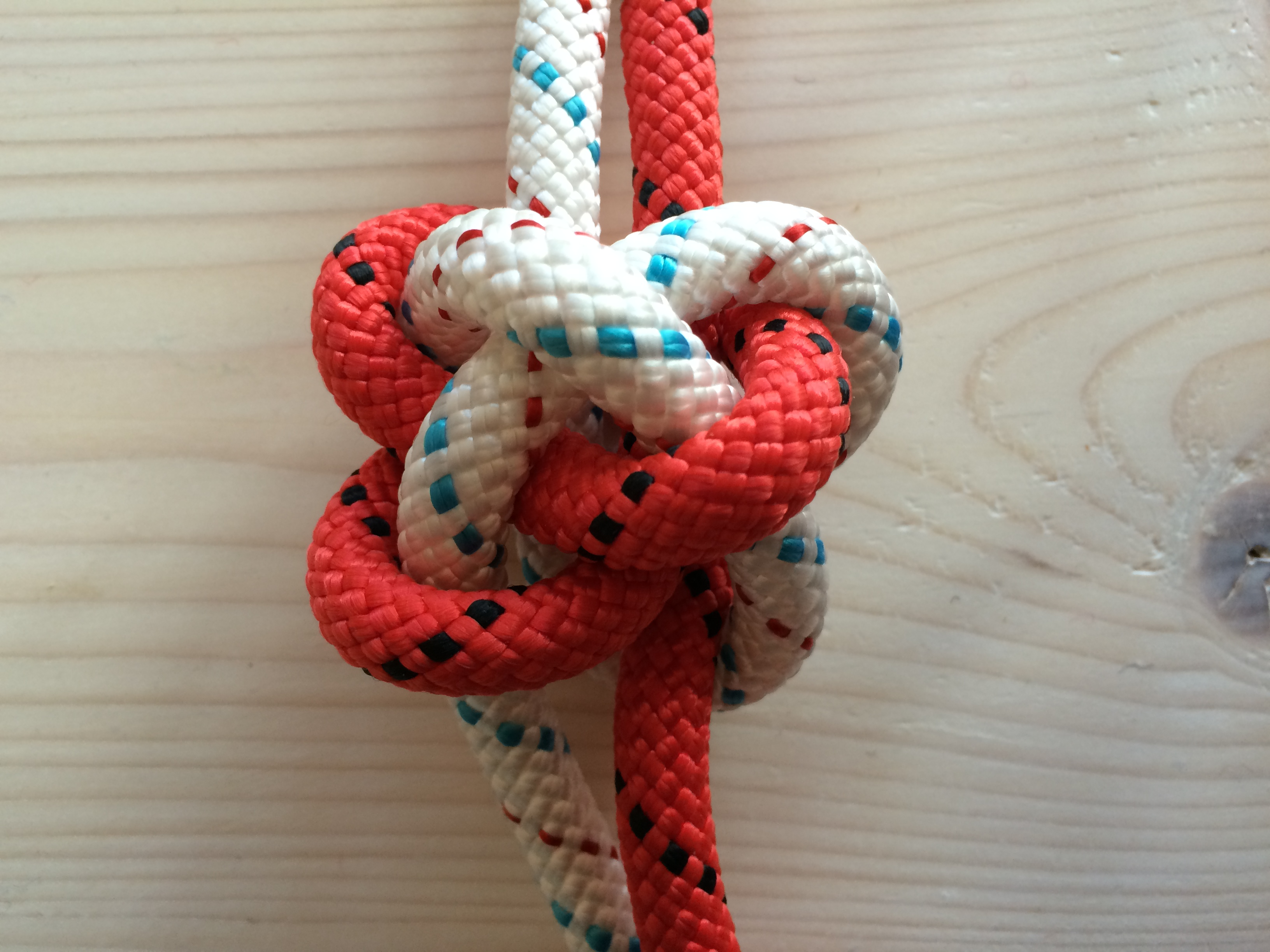 Chinese button 2 colors-front view